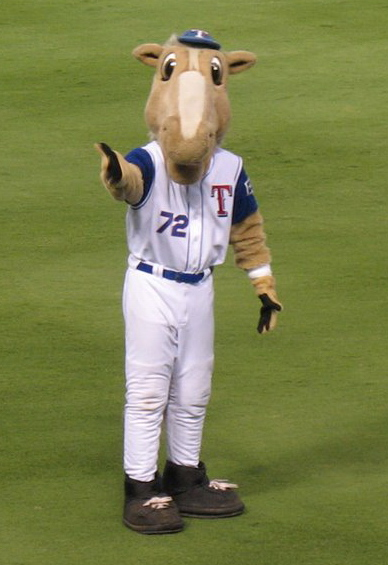 A picture of Rangers Captain that I took myself on September 22, 2006. This is being uploaded as a public domain release of the image to replace an image that was here on Wikipedia which was not a pd release. 02:53, 8 October 2007 . . Dopefish . . 388×565 (100 KB)